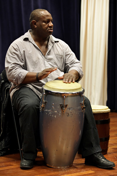 Latin Conga drum musician